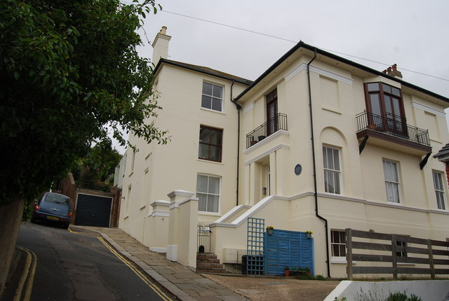 West Hill House, Exmouth Place The Author Catherine Cookson lived here for a period of time